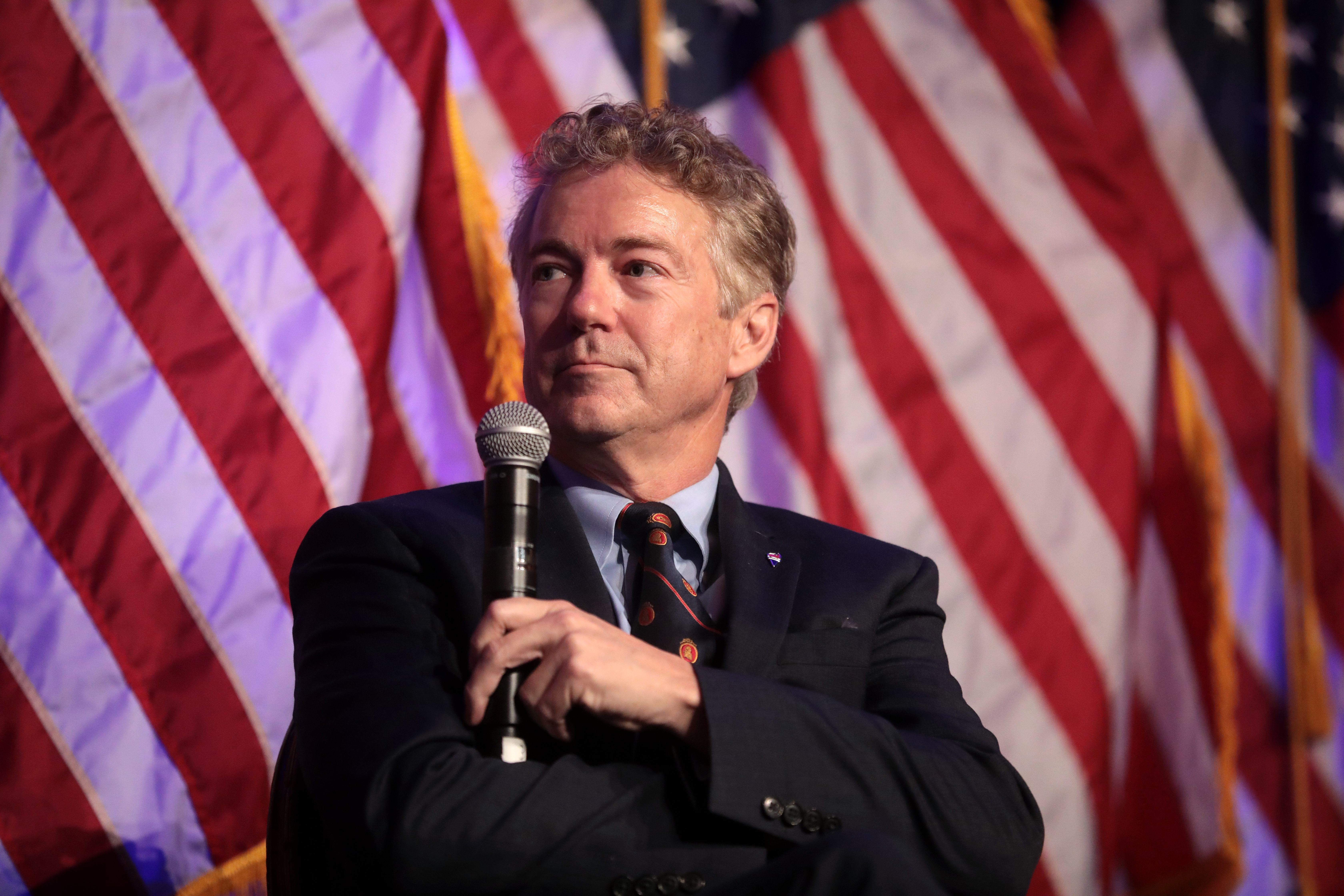 U.S. Senator Rand Paul speaking with attendees at the 2nd Annual Turning Point USA Winter Gala at the Mar-A-Lago Club in Palm Beach, Florida.